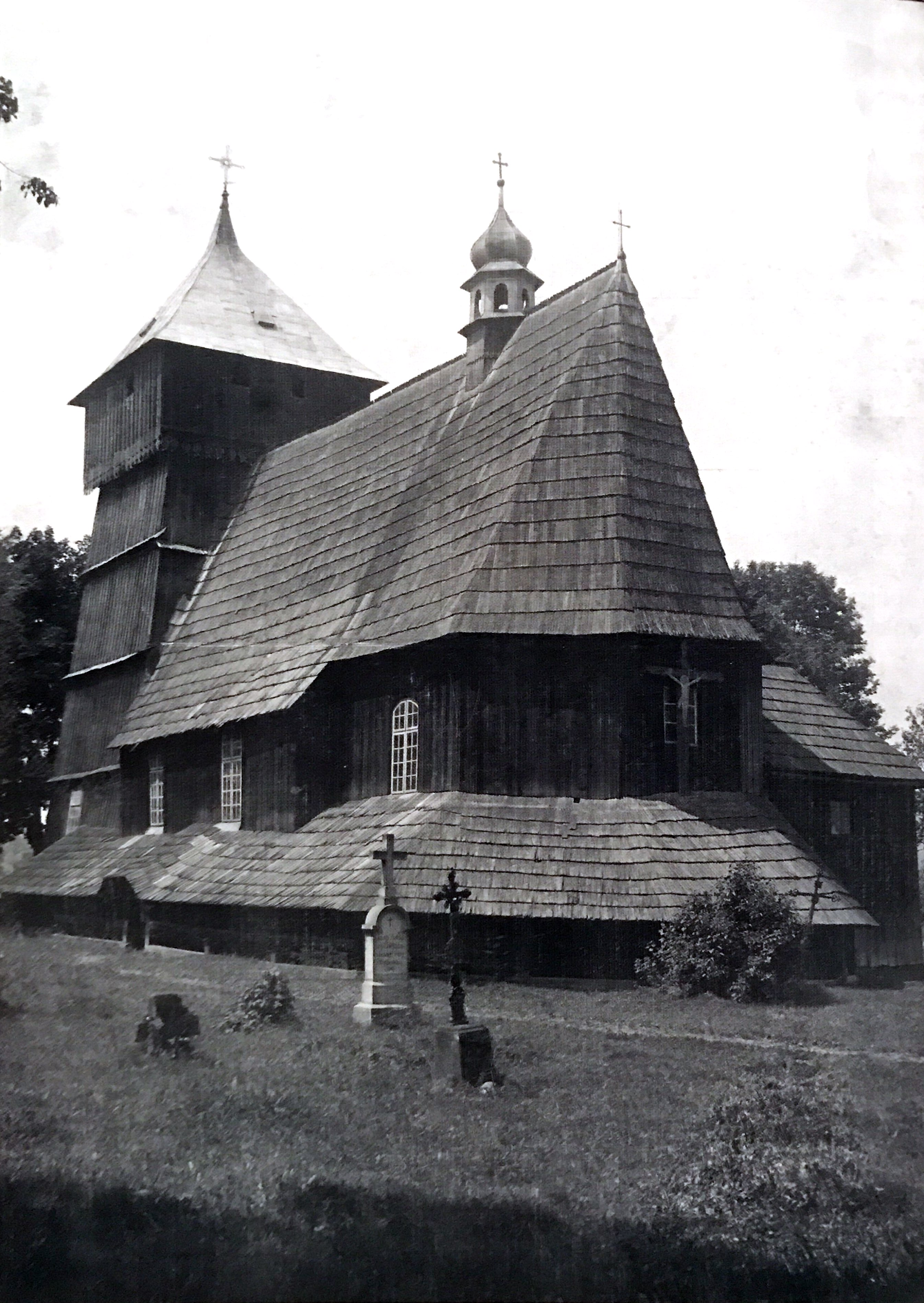 Church of All Saints in Stary Żywiec